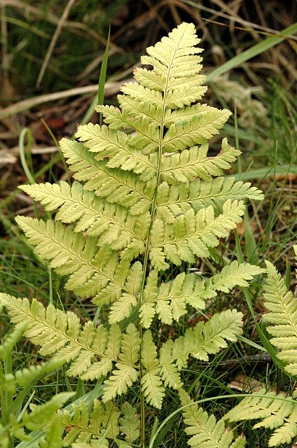 Picture taken in Commanster, Belgian High Ardennes . Species: Dryopteris carthusiana